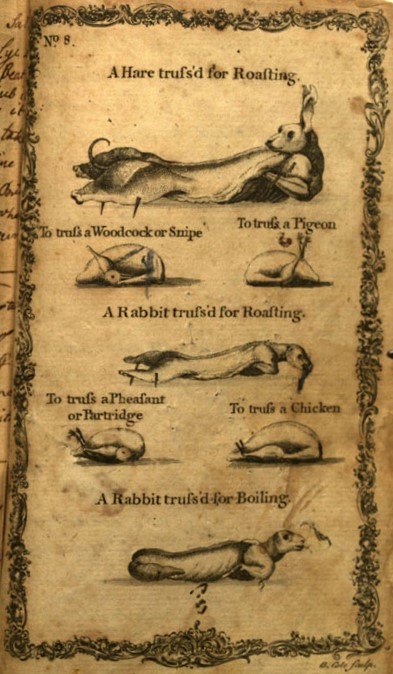 The British Housewife, Martha Bradley - "Roasting trusses"